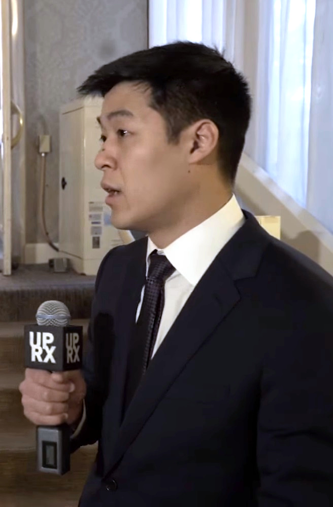 David Pei during a 2018 interview